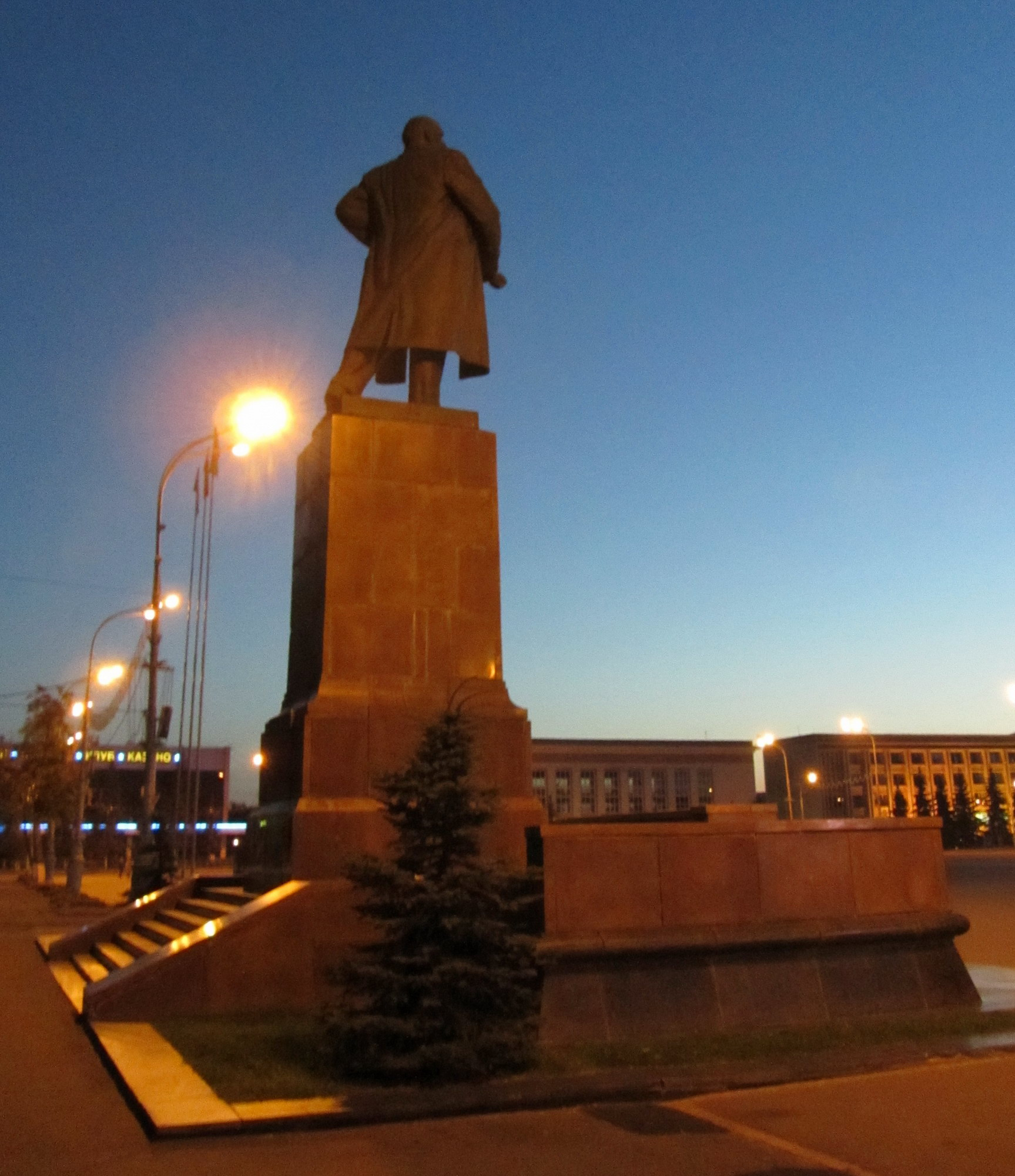 Беларуская (тарашкевіца): Помнік У.І. Леніну. г. Гомель This is a photo of Belarusian heritage monument. Reference number: 313Ж000046 ( WLM)